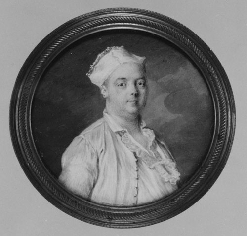 Portrait of French actor Préville (Pierre-Louis Dubus) (1721-1799) attributed to Jean-Baptiste Massé. Metropolitan Museum of Art.